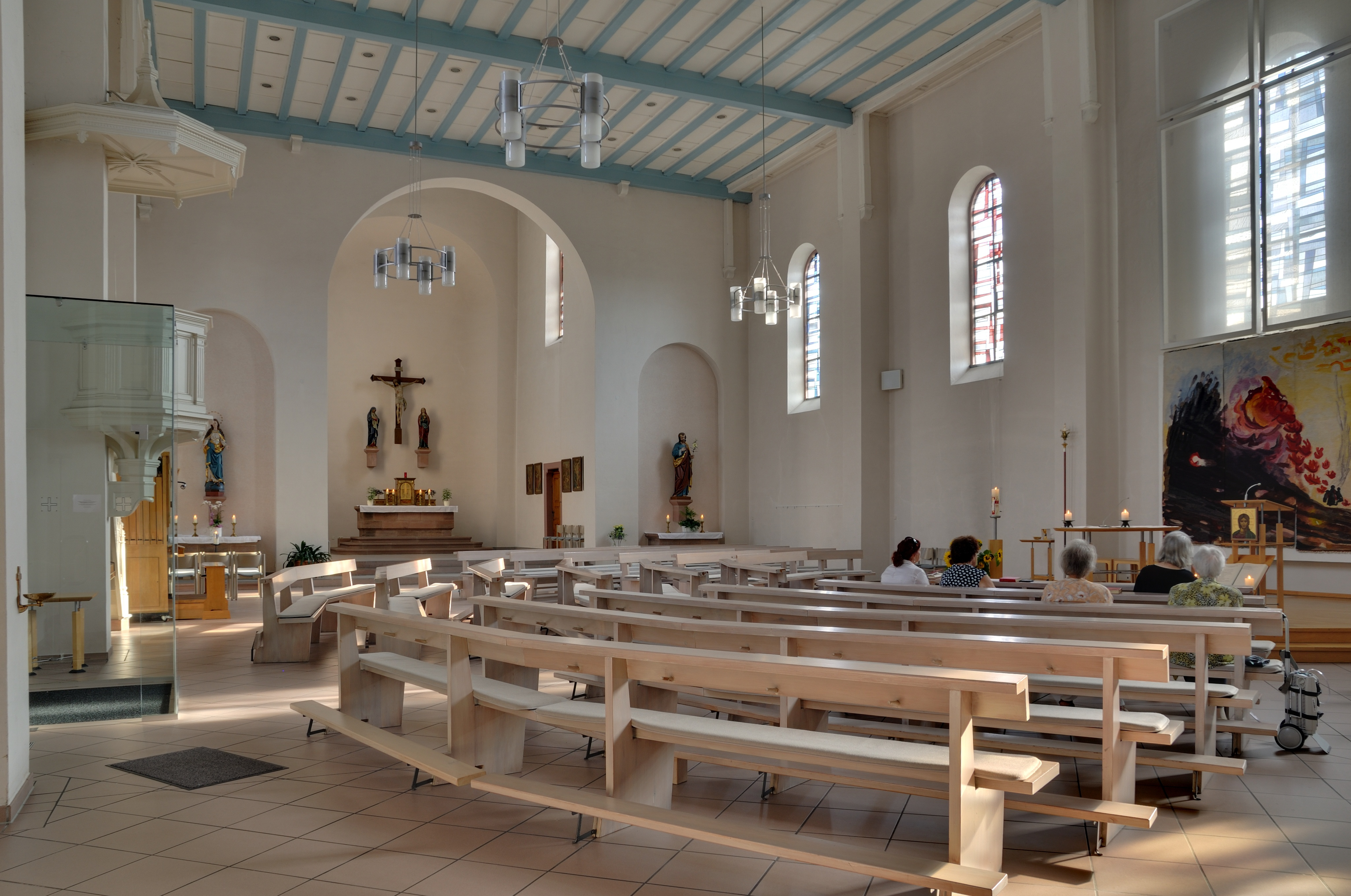 Steinen-Höllstein: Catholic Church (Church of the Immaculate Conception)